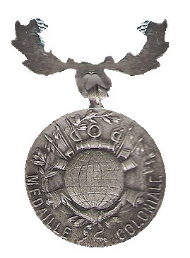 Médaille coloniale ou Médaille d'Outre Mer